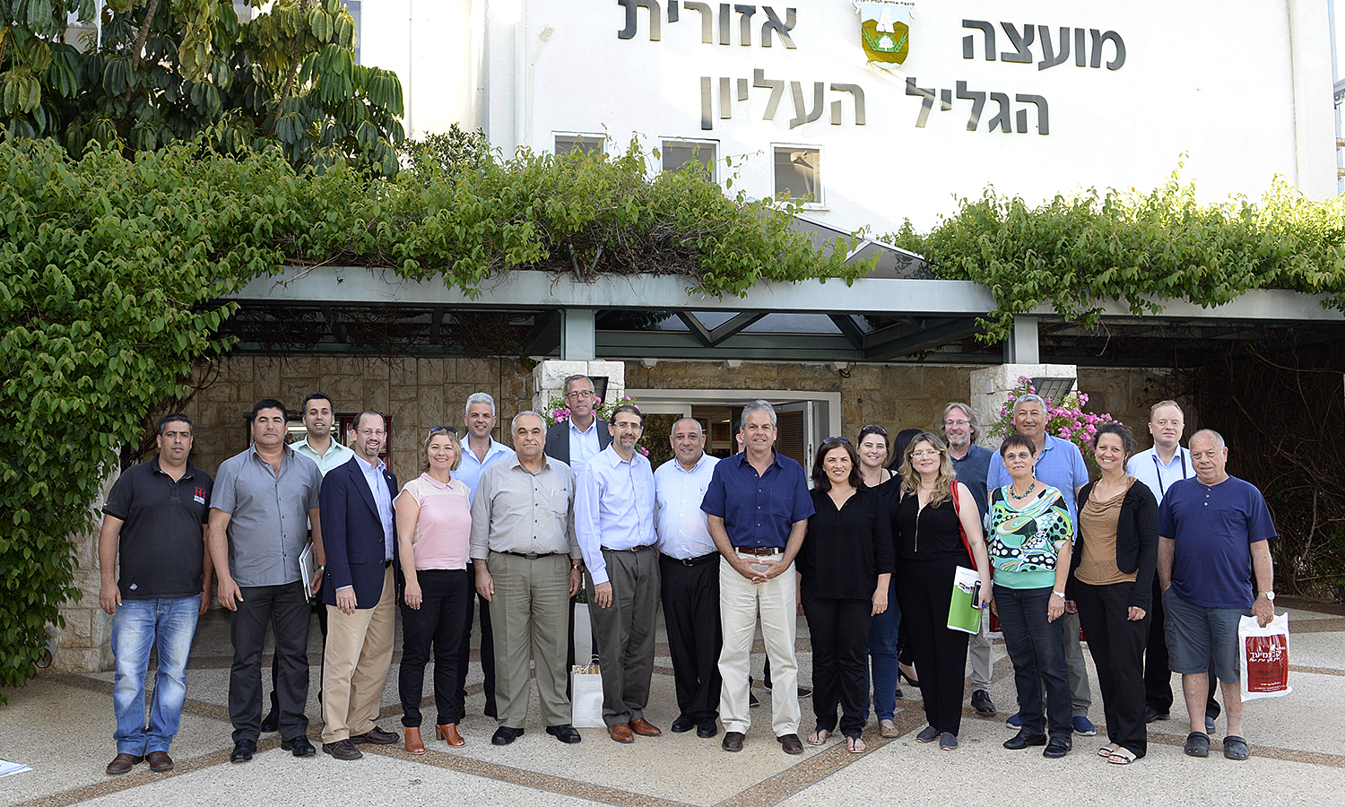 U.S. Ambassador's Daniel Shapiro visit to the upper Galilee April 20, 2016